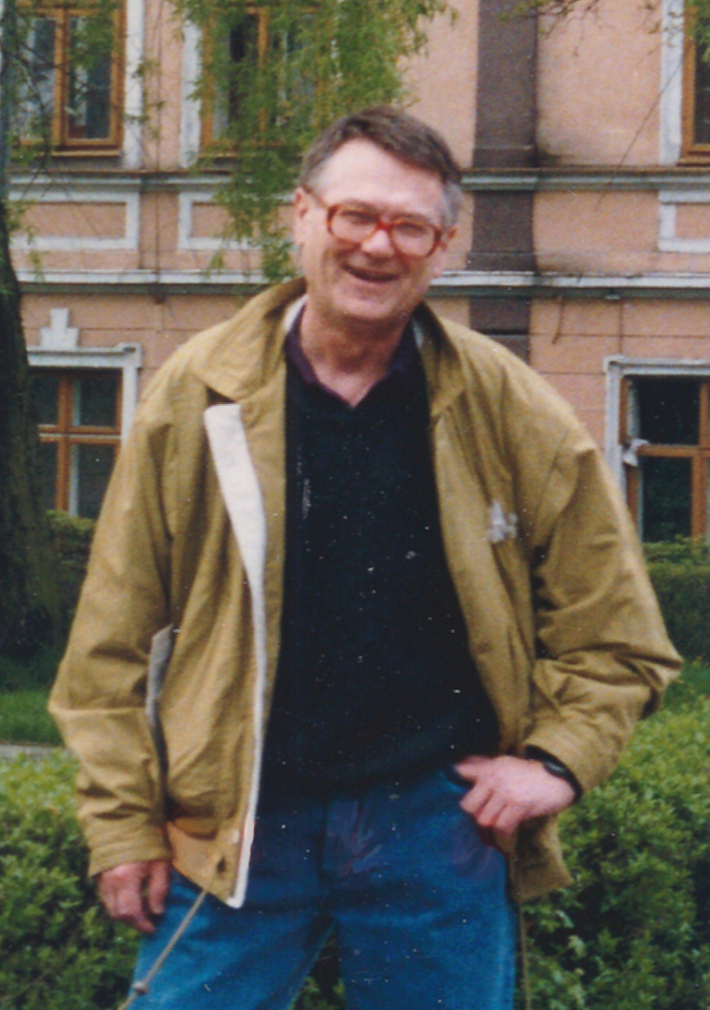 Zdzisław Beksiński in front of the Historical Museum in Sanok